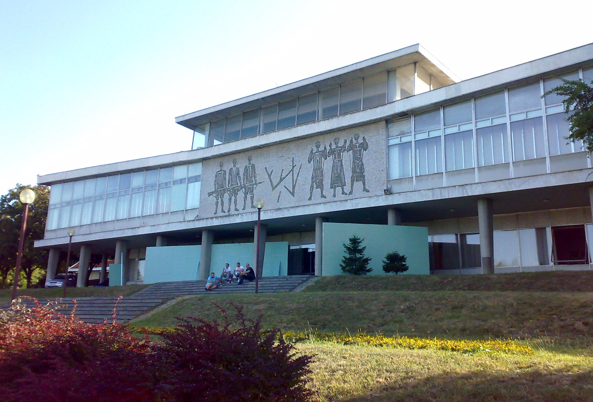 The Mausoleum of Tito is a national shrine in the western part of Beograd (Belgrade). The mausoleum is named "House of Flowers".